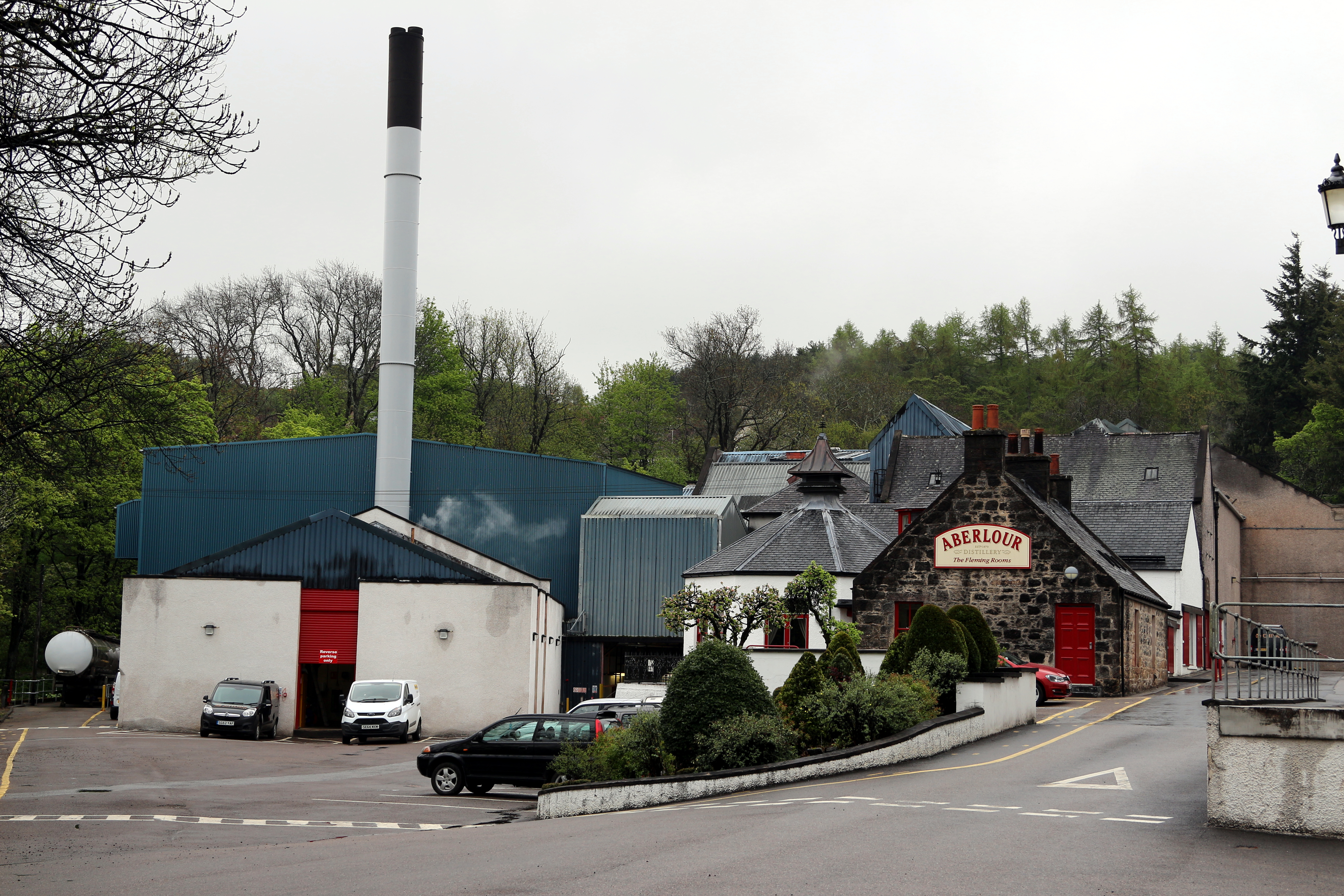 Aberlour distillery in Aberlour, Speyside.